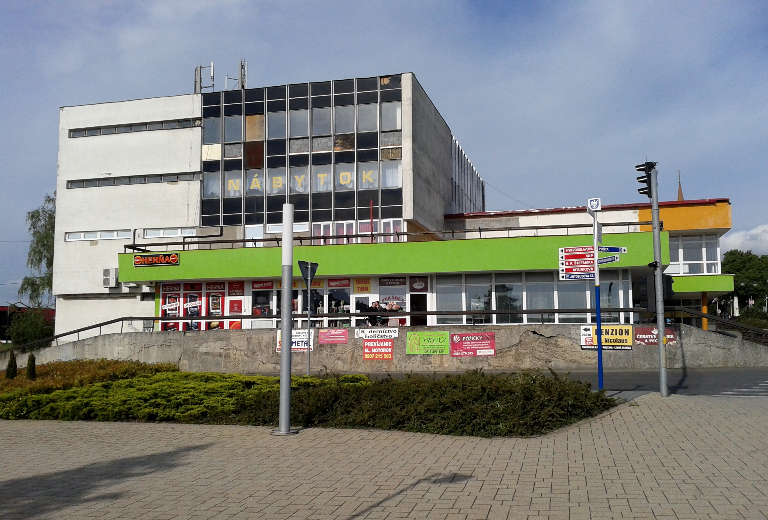 Dargov Department store in the Town of Sečovce, built in 1970s (opened July 27, 1973), projected by Czech architect Lumír Lýsek